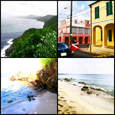 Just a collection of photographs I took around St. Croix, the originals are also uploaded.